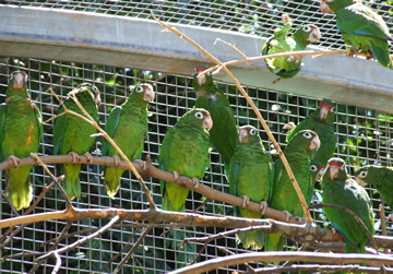 Several Puerto Rican Amazons at Iguaca Aviary, El Yunque National Forest, Puerto Rico.